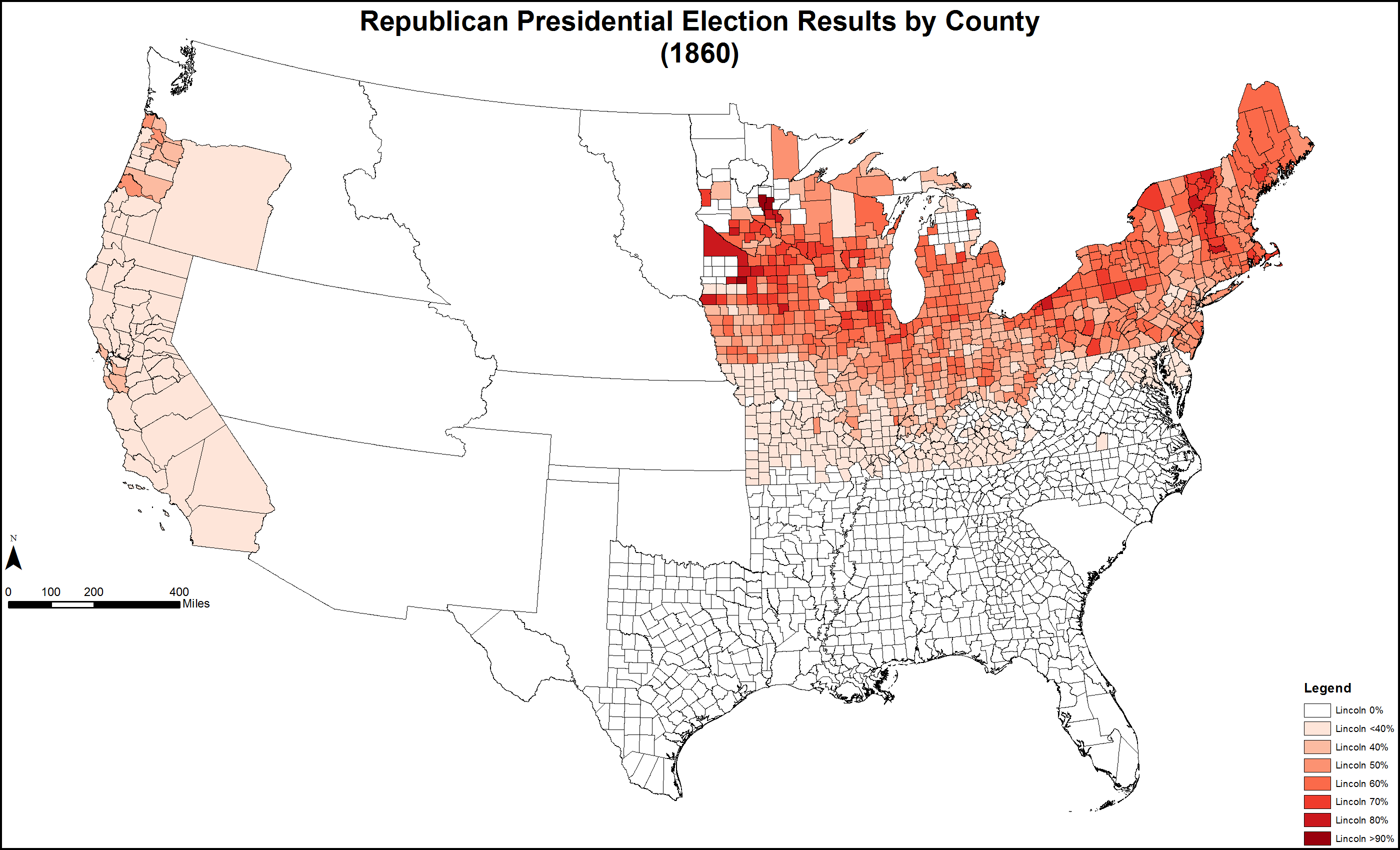 Republican presidential election results by county (1860). Colors based on Colorbrewer 2.0.